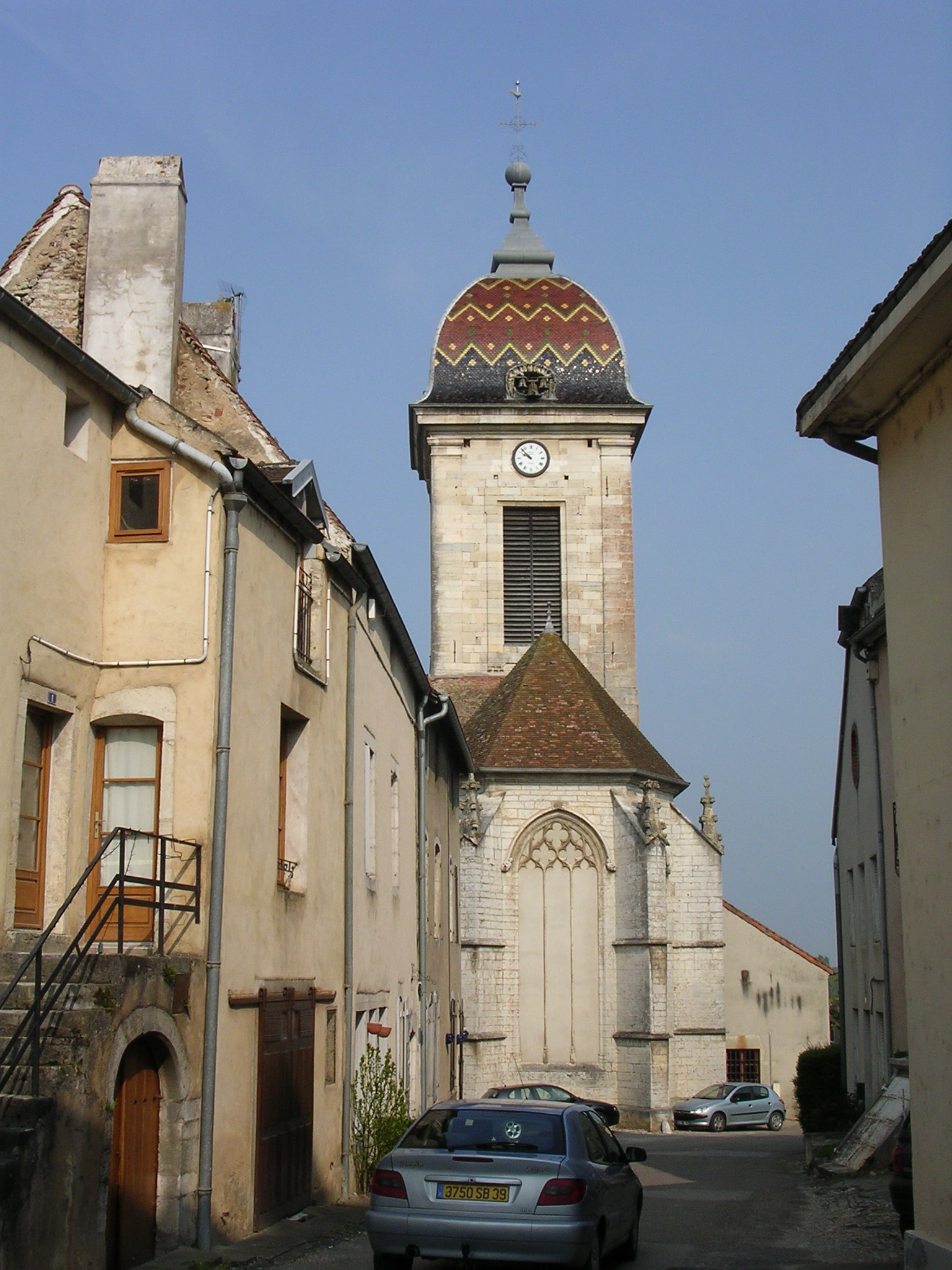 Pesmes, Franche-Comté, FRANCE Pesmes. L'église